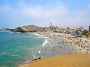 foto de la playa